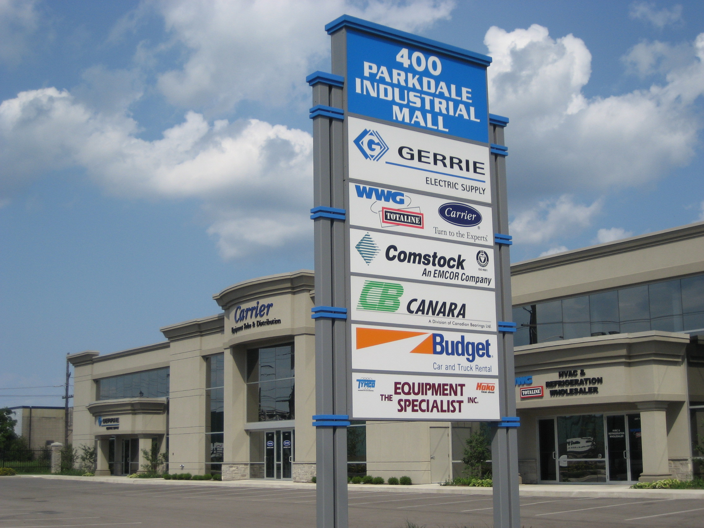 Parkdale Industrial Mall, Parkdale Avenue North, Hamilton, Canada.